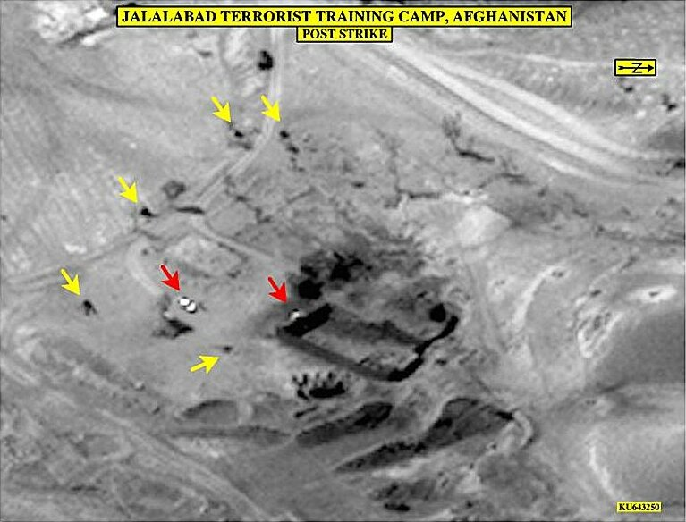 Caption on original site reads: "This image is of part of the Darunta terrorist training camp in eastern Afghanistan near Jalalabad. It consists of buildings and training areas, as well as some gun emplacements. As is visible in this or the next photo, the buildings have been destroyed, as have the gun emplacements. "The site shown in the image is located northeast of the Darunta Dam, and southwest of the site identified as a possible helipad. "(Released) DoD News Briefing. Friday, Oct. 12, 2001 "